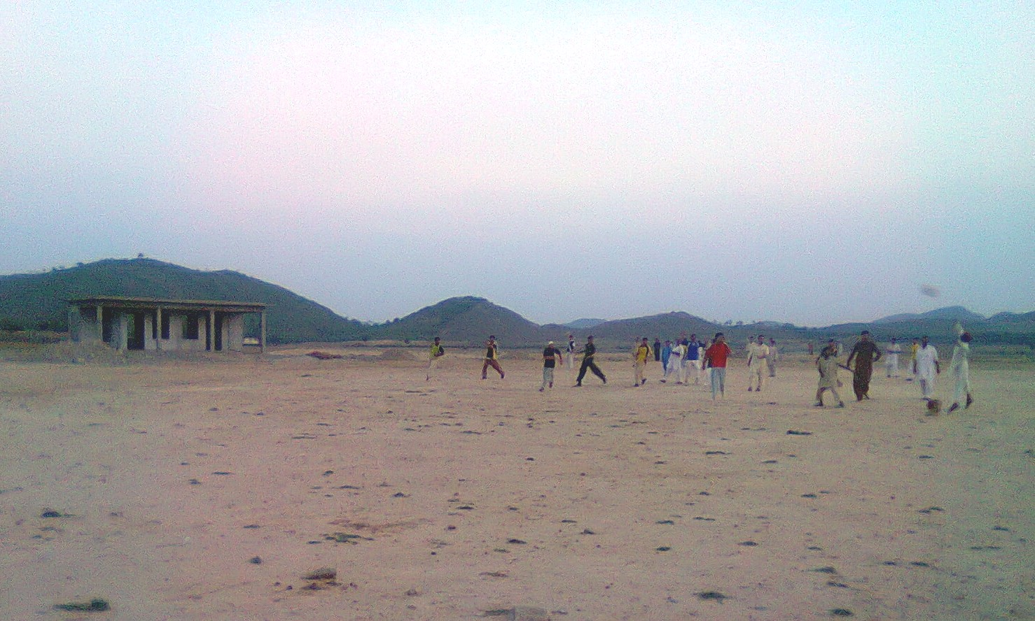 photo